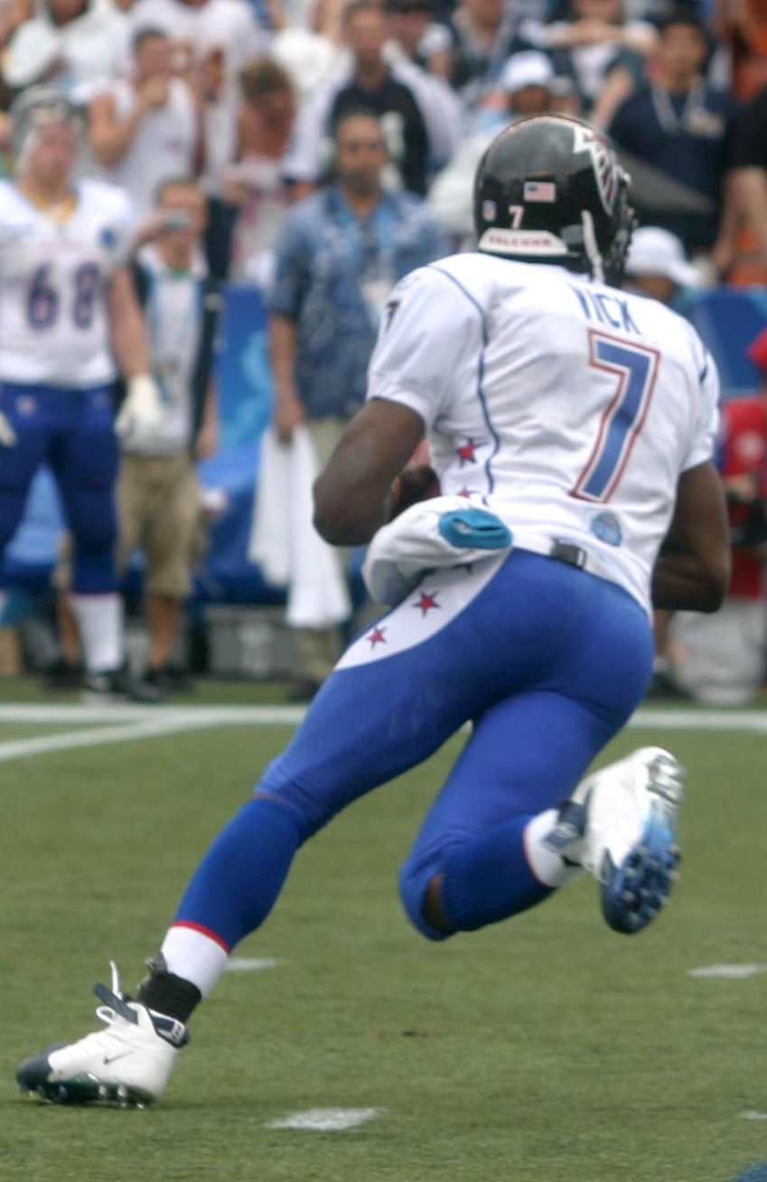 Michael Vick (en), of the Atlanta Falcons (en) scrambles past Colts defensive end Dwight Freeney in the 2006 Pro Bowl held at Aloha Stadium in Honolulu.